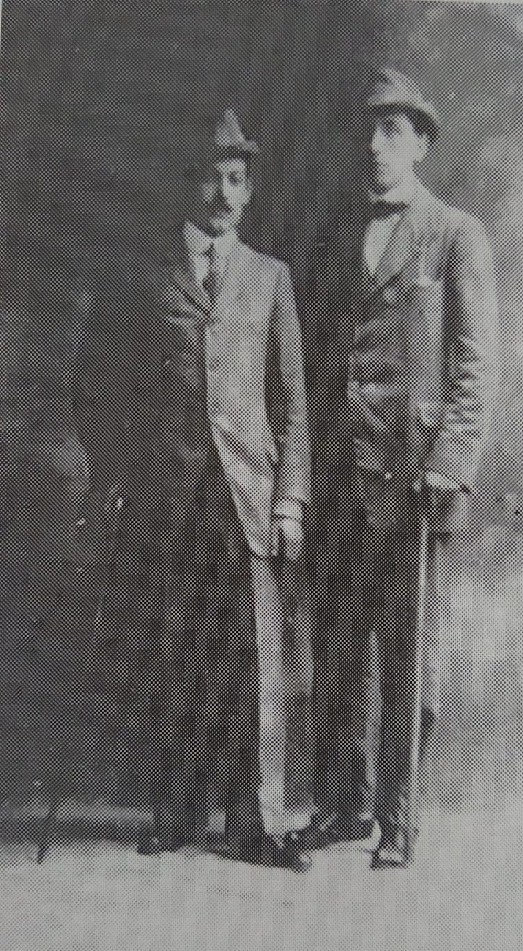 Milutin Bojić (left) and Nikola Bešević (right) in Rome, 1916. Српски (ћирилица): Милутин Бојић, српски песник, и Никола Бешевић, српски сликар, у Риму 1916. године.